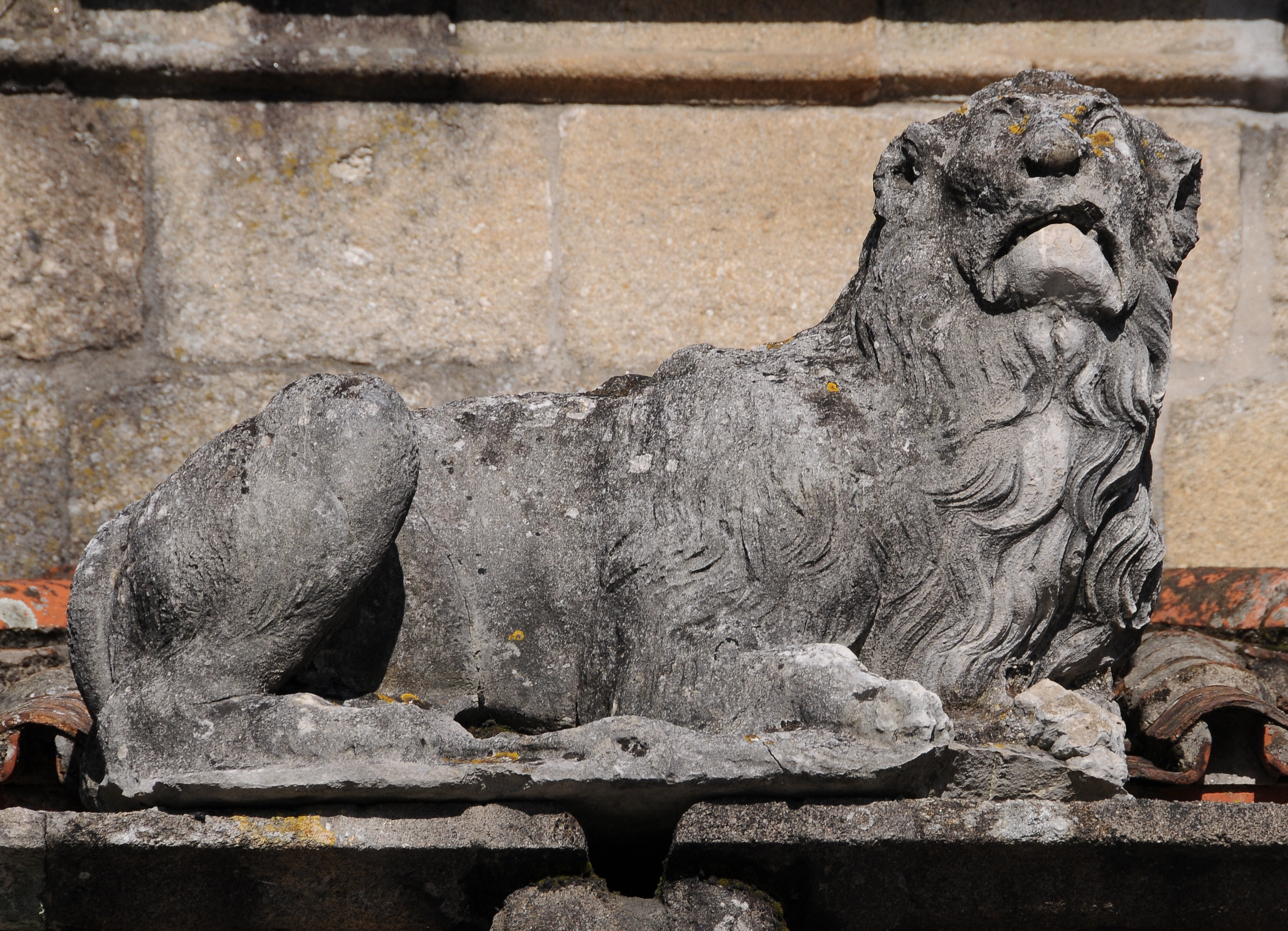 Statue os a lion in Capela dos Coimbras, São João do Souto, Braga, Portugal.